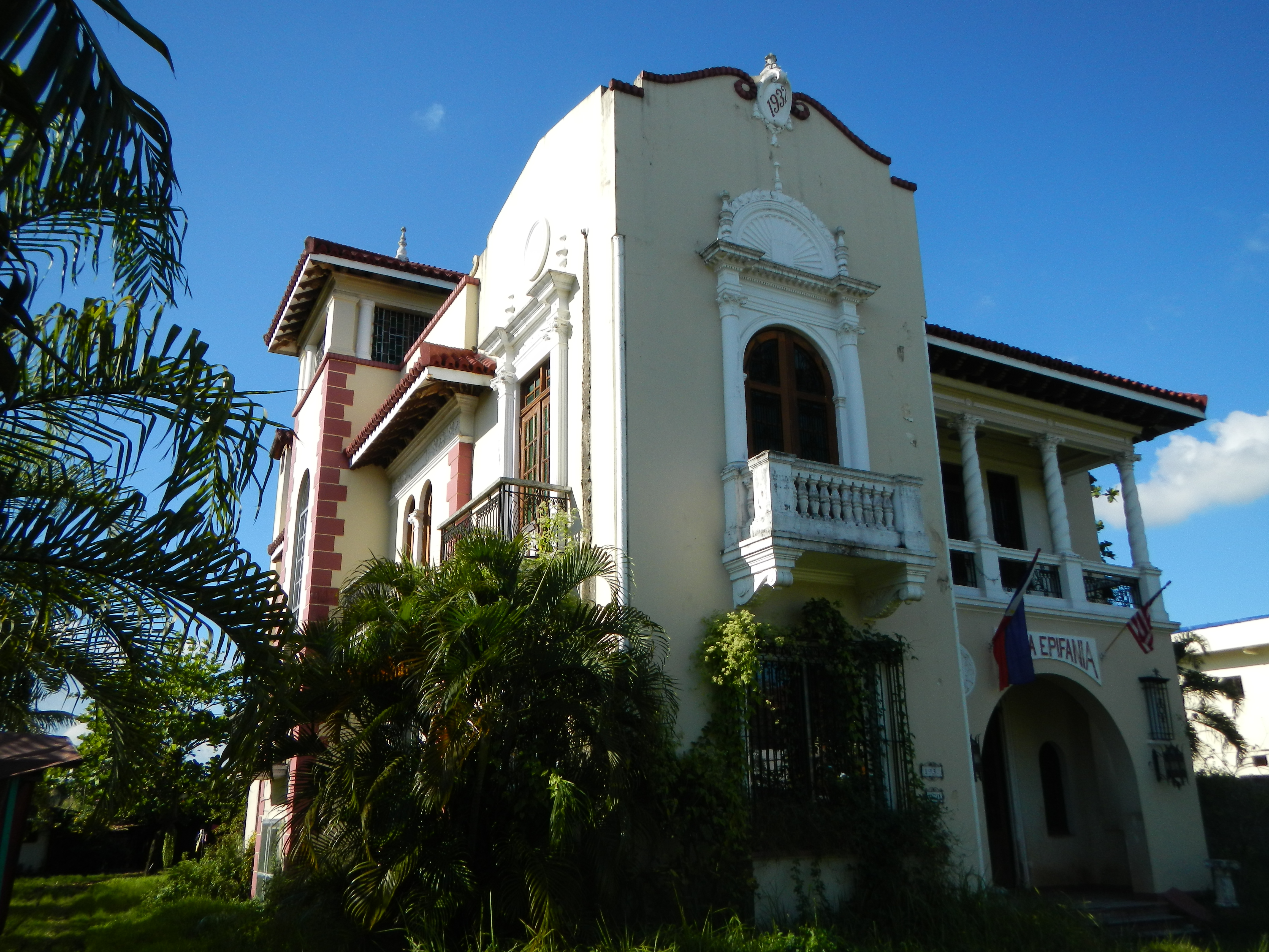 Villa Epifania: The Grand Old House of Sta. Rita[1]Santa Rita, Pampanga[2]